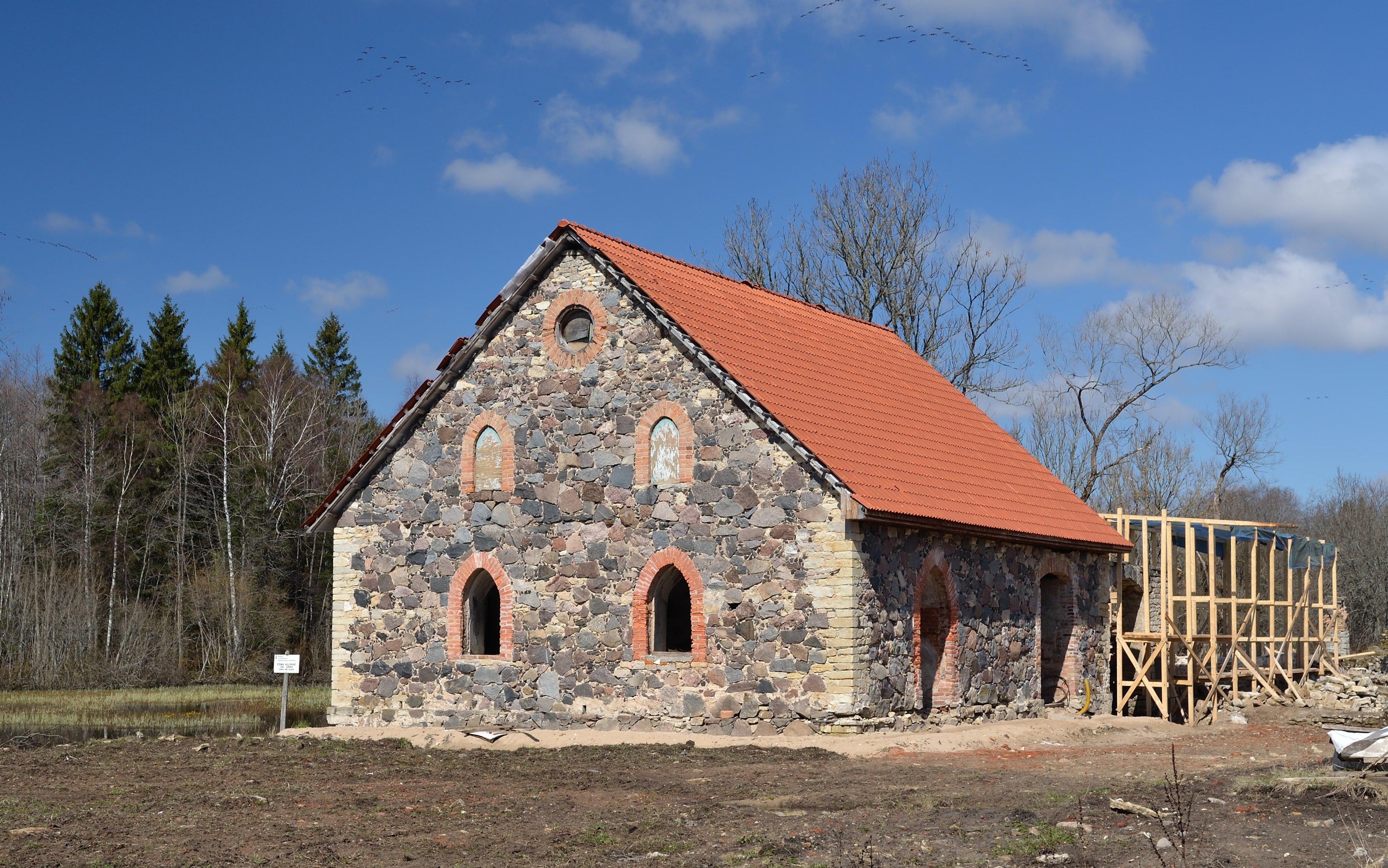 Esna manor dairy kitchen